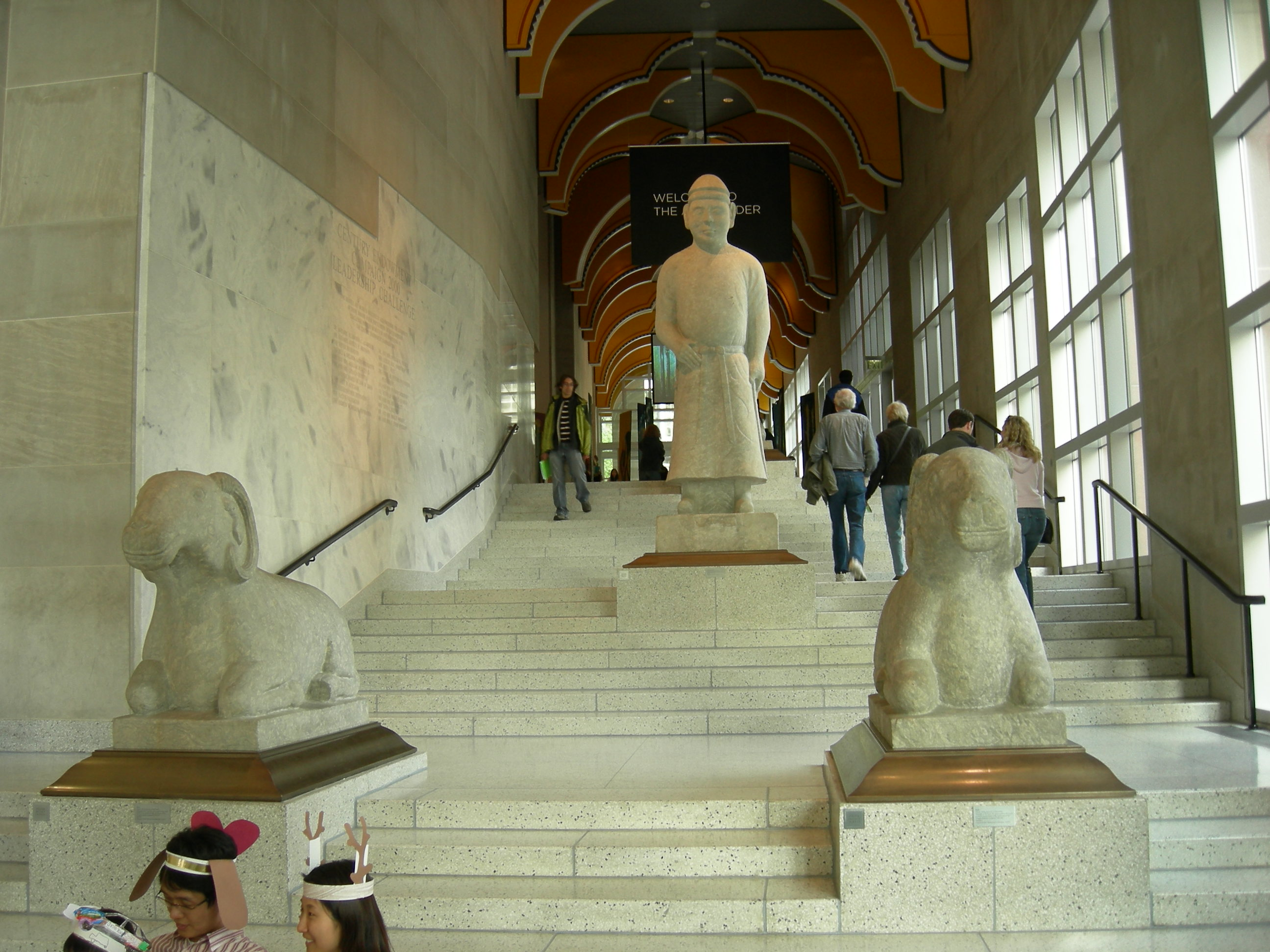 The "Art Ladder", the main staircase of the original Robert Venturi portion of the Seattle Art Museum, Seattle, Washington. The visible statues are Chinese funerary statues: two rams and a civilian guardian.